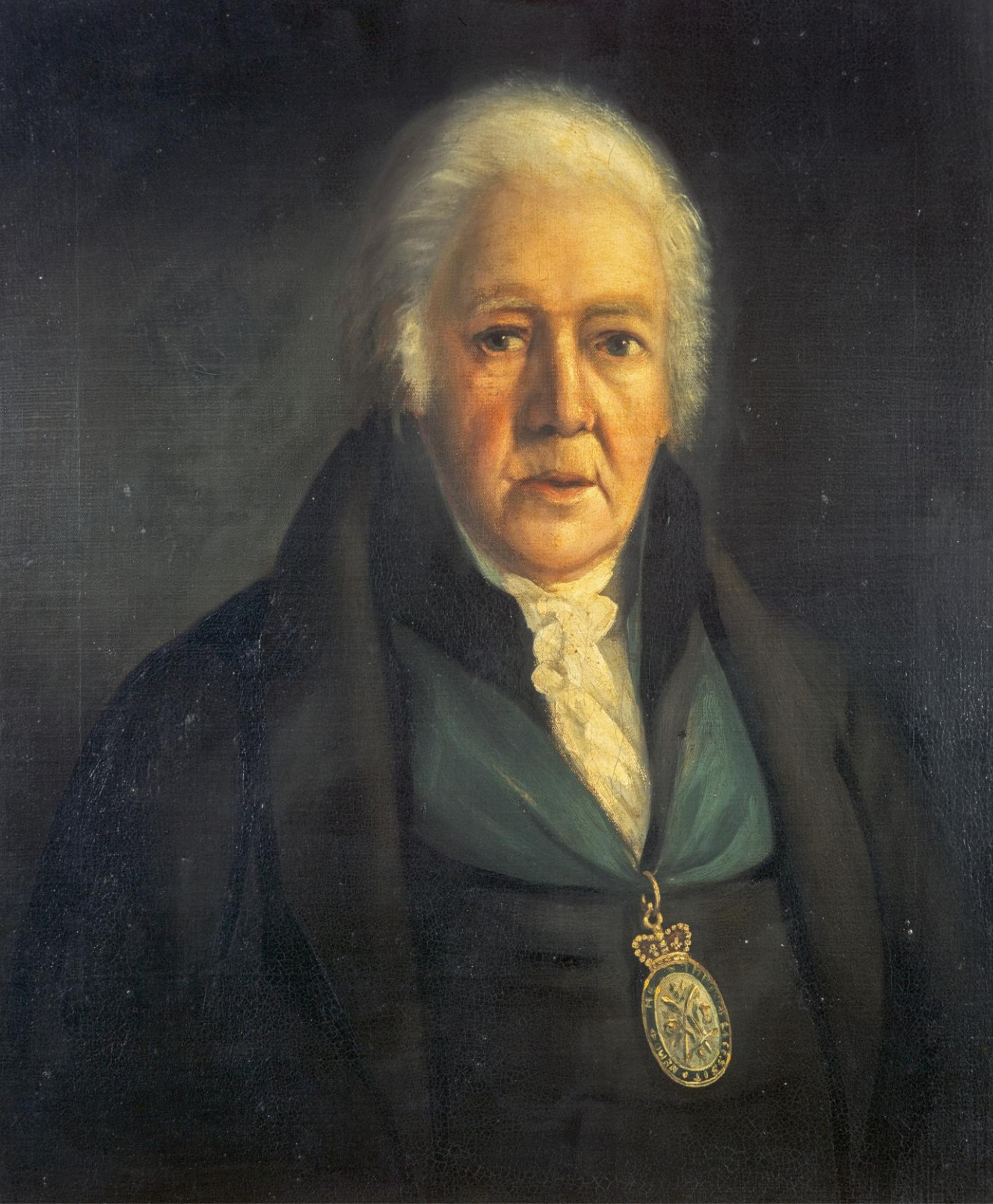 Portrait of George Dempster of Dunnichen